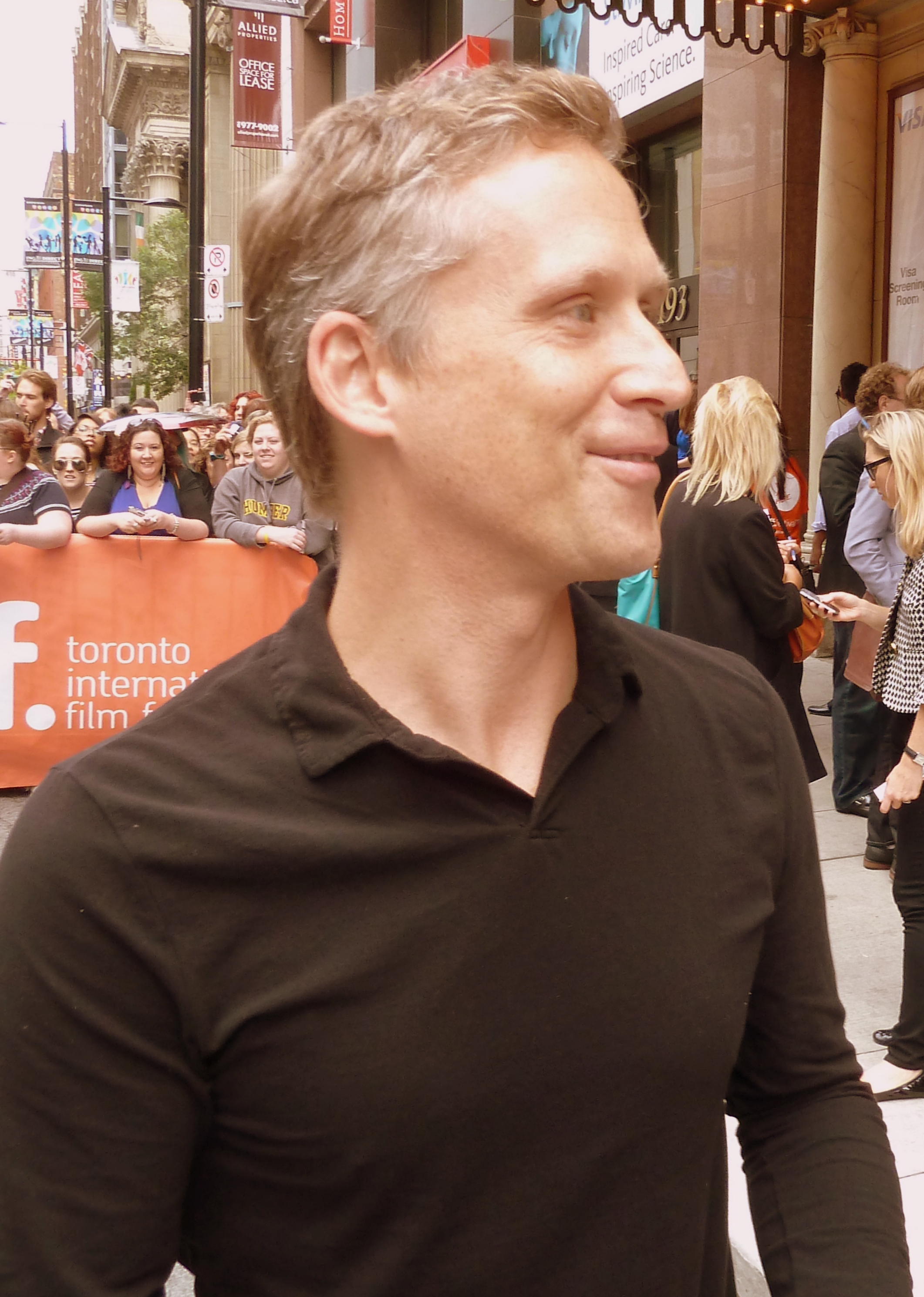 Reed Diamond at the premiere of Much Ado About Nothing, Toronto Film Festival 2012